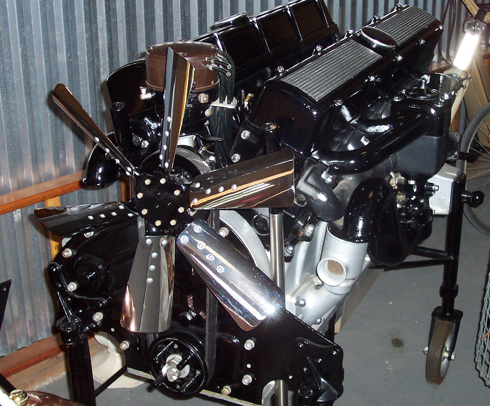 Early 1930's Cadillac 452 cui over head valve sixteen cylinder 45 degree vee engine. Location: Jysk Automobilmuseum, Gjern, Denmark